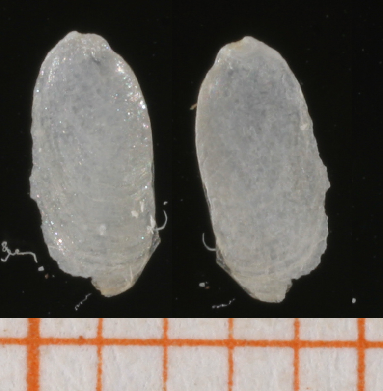 shells of Lehmannia valentiana. (Scale is in mm.) Locality: N Germany: Kiel, greenhouse, 07-1957.